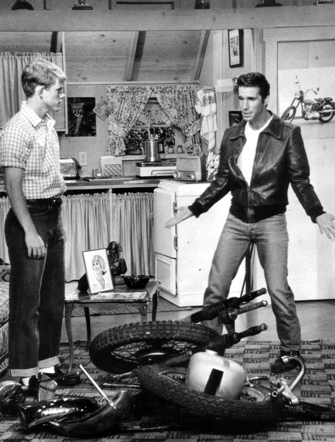 Publicity photo from Happy Days. Pictured are Richie (Ron Howard) and Fonzie (Henry Winkler) at Fonzie's apartment over the Cunningham's garage. The episode deals with Fonzie's destroyed motorcycle.